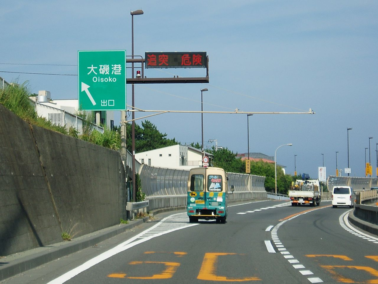 Oisoko exit, Route 1 "Seisho bypass" in Japan